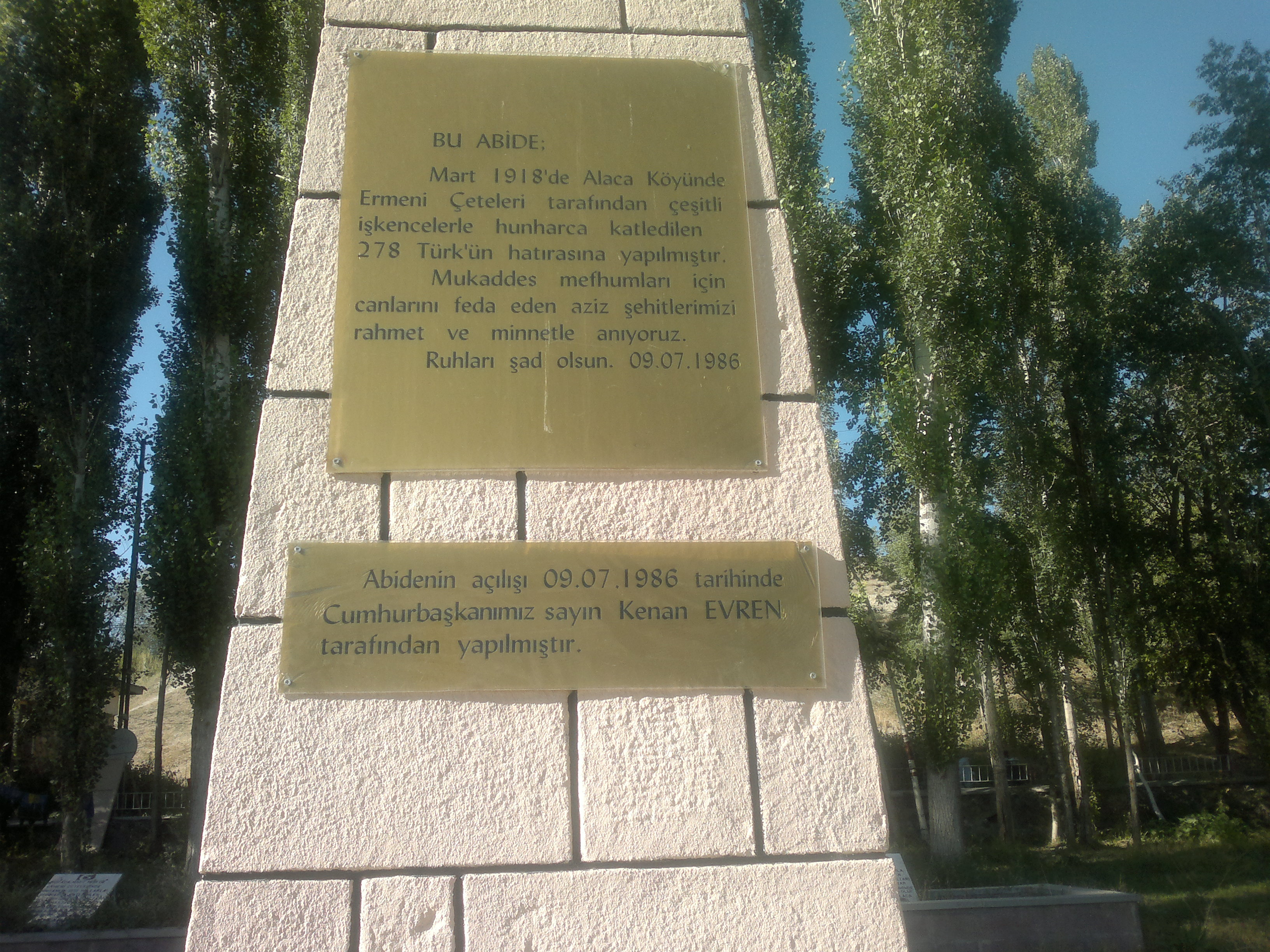 Statue built in Cemetery in Village (Alaca-Erzurum, Turkey) for native Martyrdom Victims. (in 1918, Turkish Genocide had been happened in this village. 278 Turks were killed mercilessly by Armenian brigands.Population of the village was 300.)